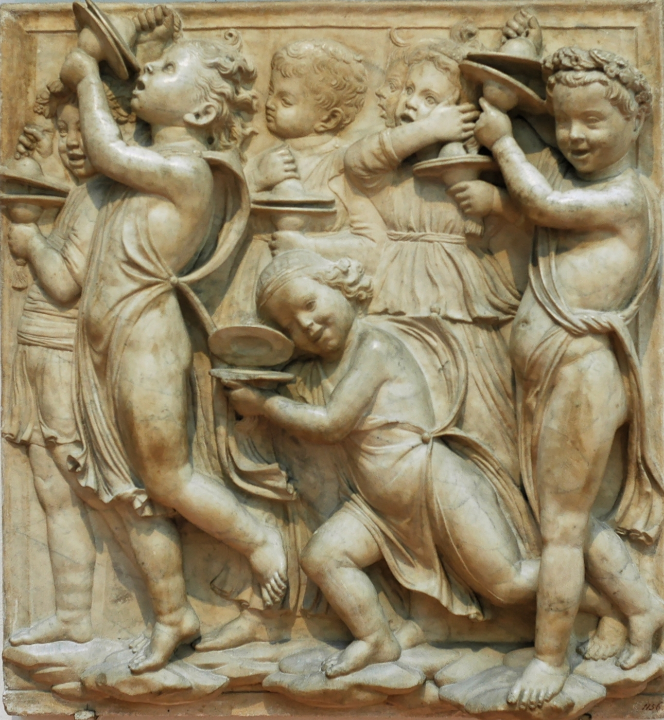 Children playing the cymbals, illustration of Psalm 150 (Laudate Dominum). Panel decorating the cantoria (singers' gallery), actually a balcony for the 1438' organ of the Duomo. Museo dell'Opera del Duomo, Florence, Italy. Marble.